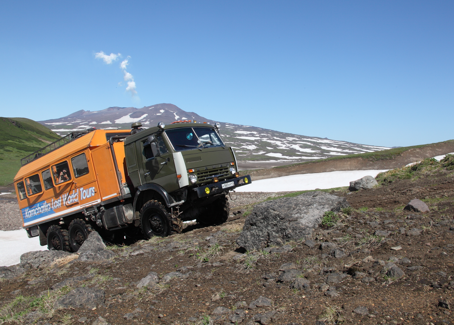 KamAZ-43105 truck of Kamchatka Lost World Tours going to Mutnovsky.